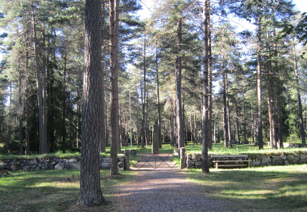 Soviet war cemetery at Jørstadmoen, Lillehammer